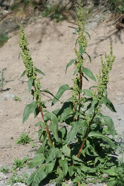 (en)(Us)Dooryard Dock, (Gb)Northern Dock (Rumex longifolius), a photography originating of the internet site The accord of the autor, H. Brisse, is here. (fr) Patience domestique (Rumex longifolius), une photographie issue du site internet L'accord de l'auteur, H. Brisse, se situe ici. (it)Romice a foglie lunghe ; (es)Paradella longifòlia ; (de)Langblättriger Ampfer ; (nl)Noordse Zuring